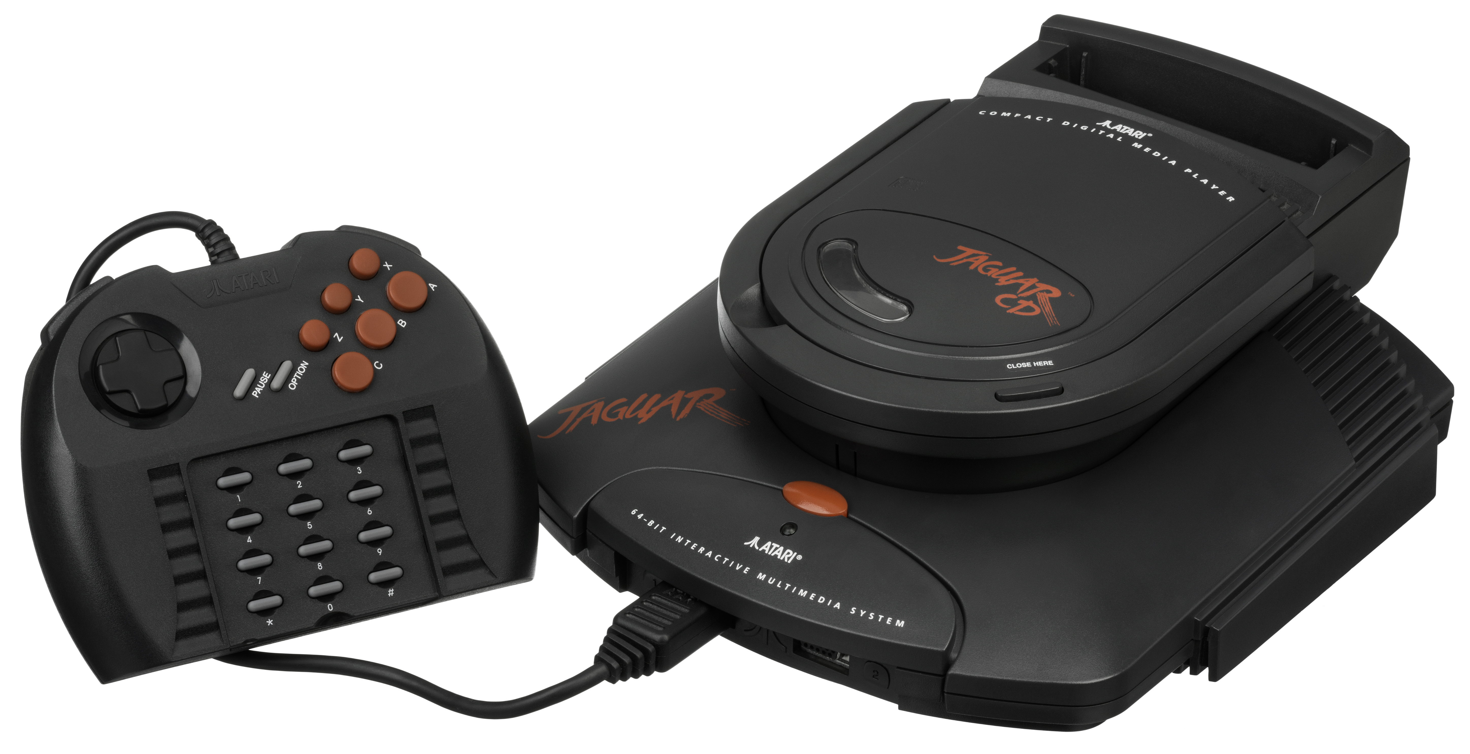 The Atari Jaguar console shown with the Jaguar CD add-on and the Pro Controller. The Jaguar CD and Pro Controller were options for the Atari Jaguar released in 1995, shortly before Atari Corp. stopped supporting the system in 1996.